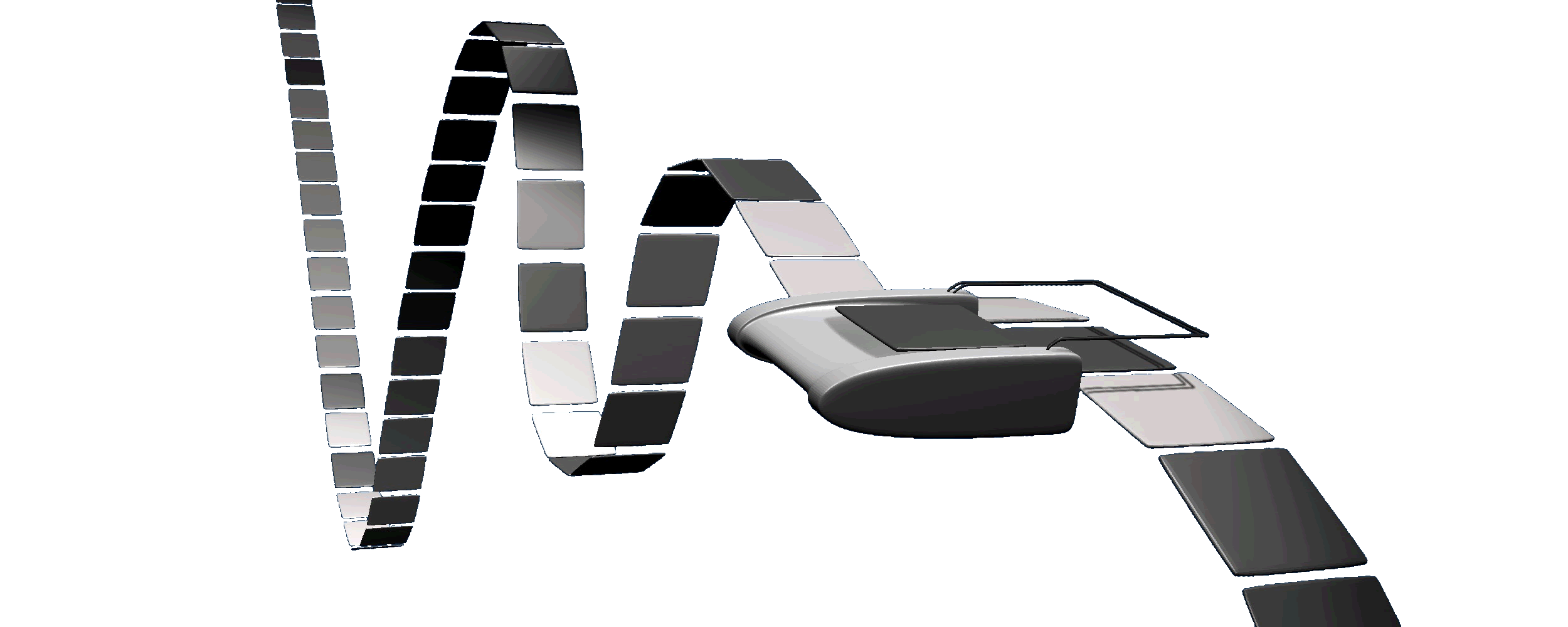 Author: Schadel URL: Made by me on contribution to CEUAMI in Universidad Autónoma Metropolitana, Mexico, free for use to anyone interested in Computer Science. Brought from: File:Maquina.gif & converted into PNG format by User:Porao